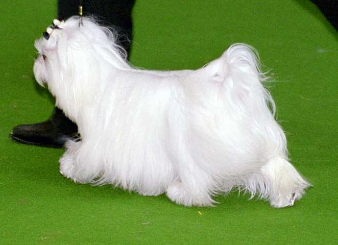 Photograph by Jurriaan Schulman